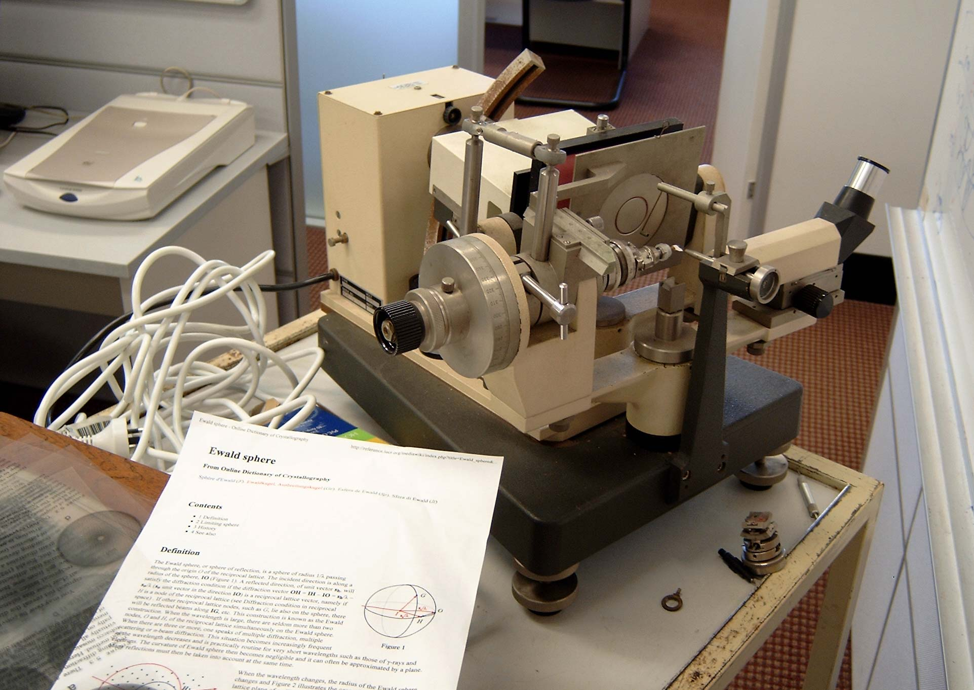 Diffractometer used to explain the basics of an Ewald construction